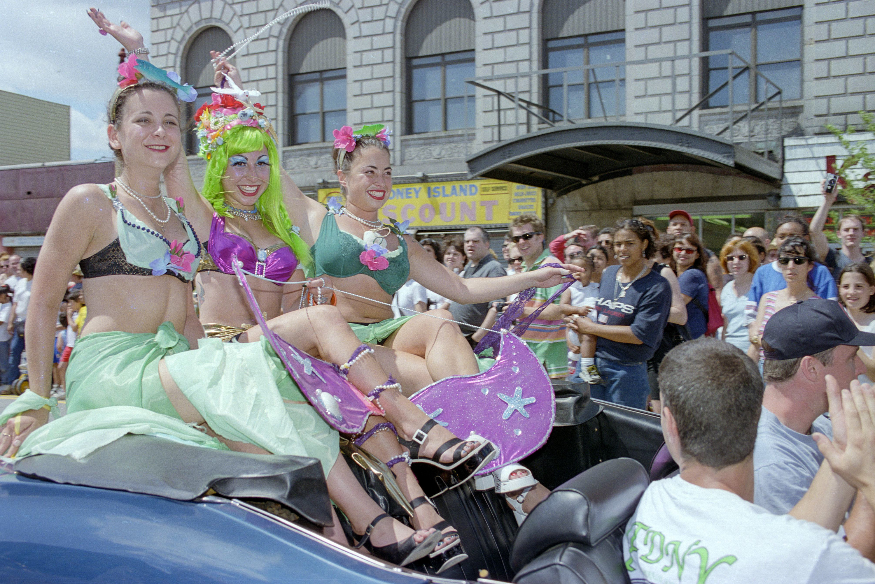 1998 Coney Island Mermaid Parade. Film scan. June 27, 1998.